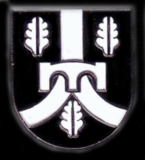 Staff & HQ Company 40th Engineers Brigade